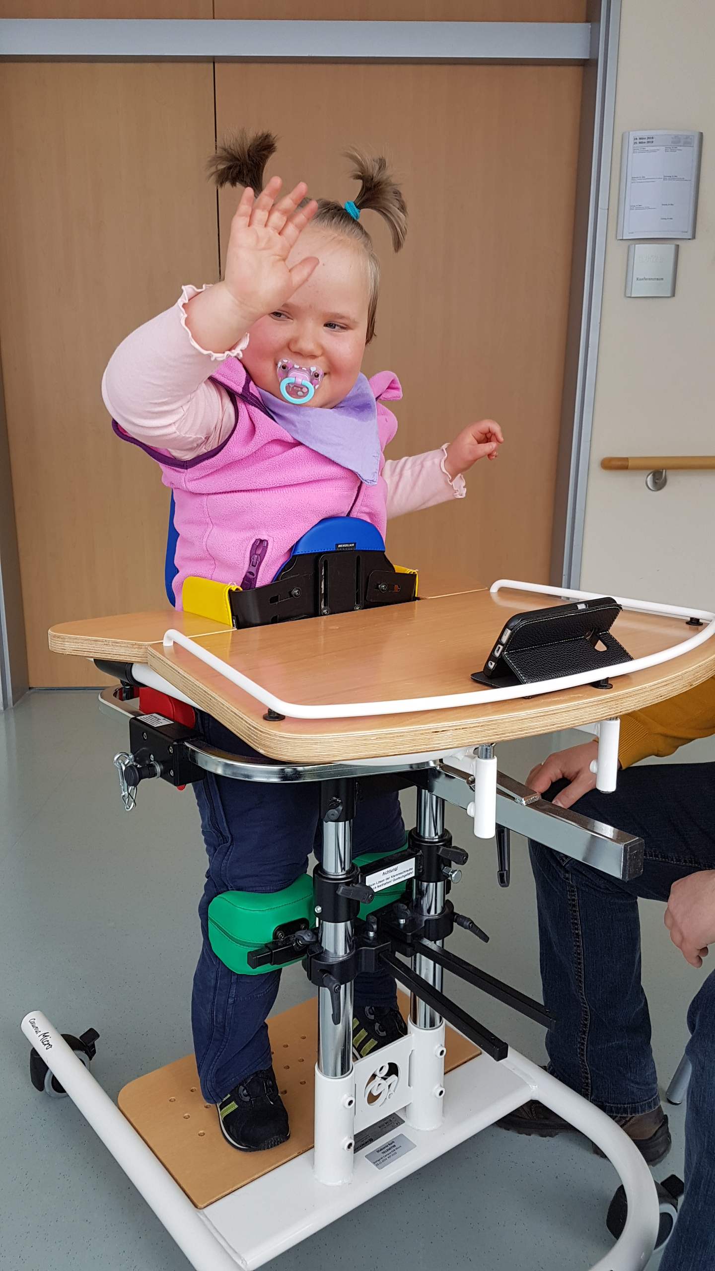 This picture shows a standing aid for children. It is used for therapeutic purposes in children with limited mobility and stability. Disclaimer: The depicted child is my daughter.